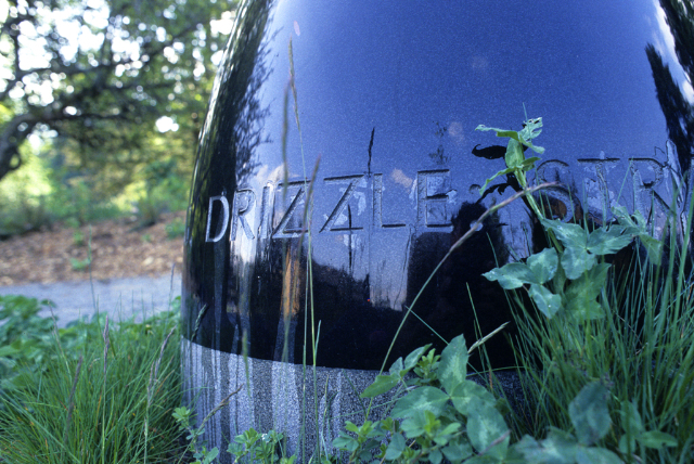 Cloud Stones: Mineral Springs Park, Seattle Arts Council, Seattle WA. 2004 The highly polished black stone domes reflect the sky and the clouds formations. Text sandblasted around the domes tells of the types of weather which these cloud formations bring. The white domes have more of evening presence, and their text tells of the moon and stars. As the light fades at dusk, the white domes remain bright while the dark domes sink into the shadows.